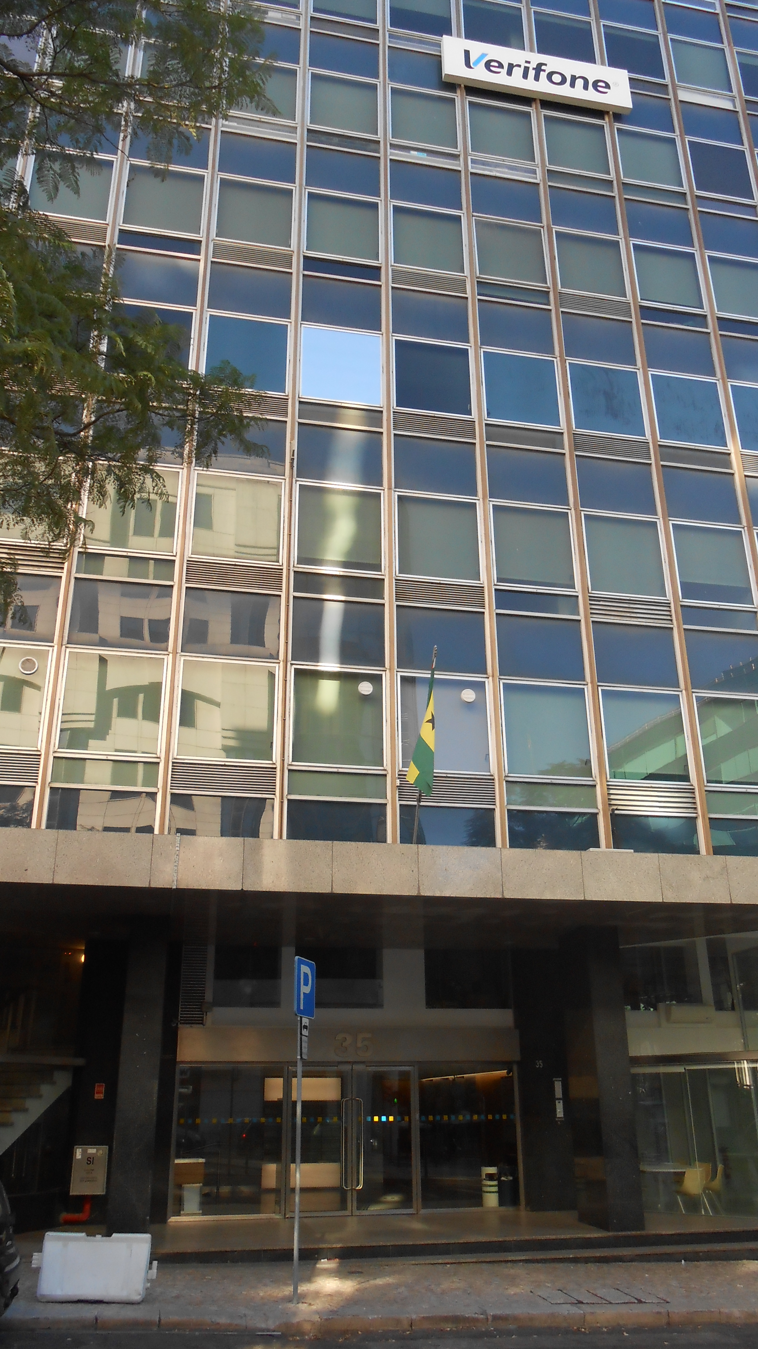 The embassy of the Democratic Republic of São Tomé and Príncipe in the Avenida 5 de Outubro in Lisbon.